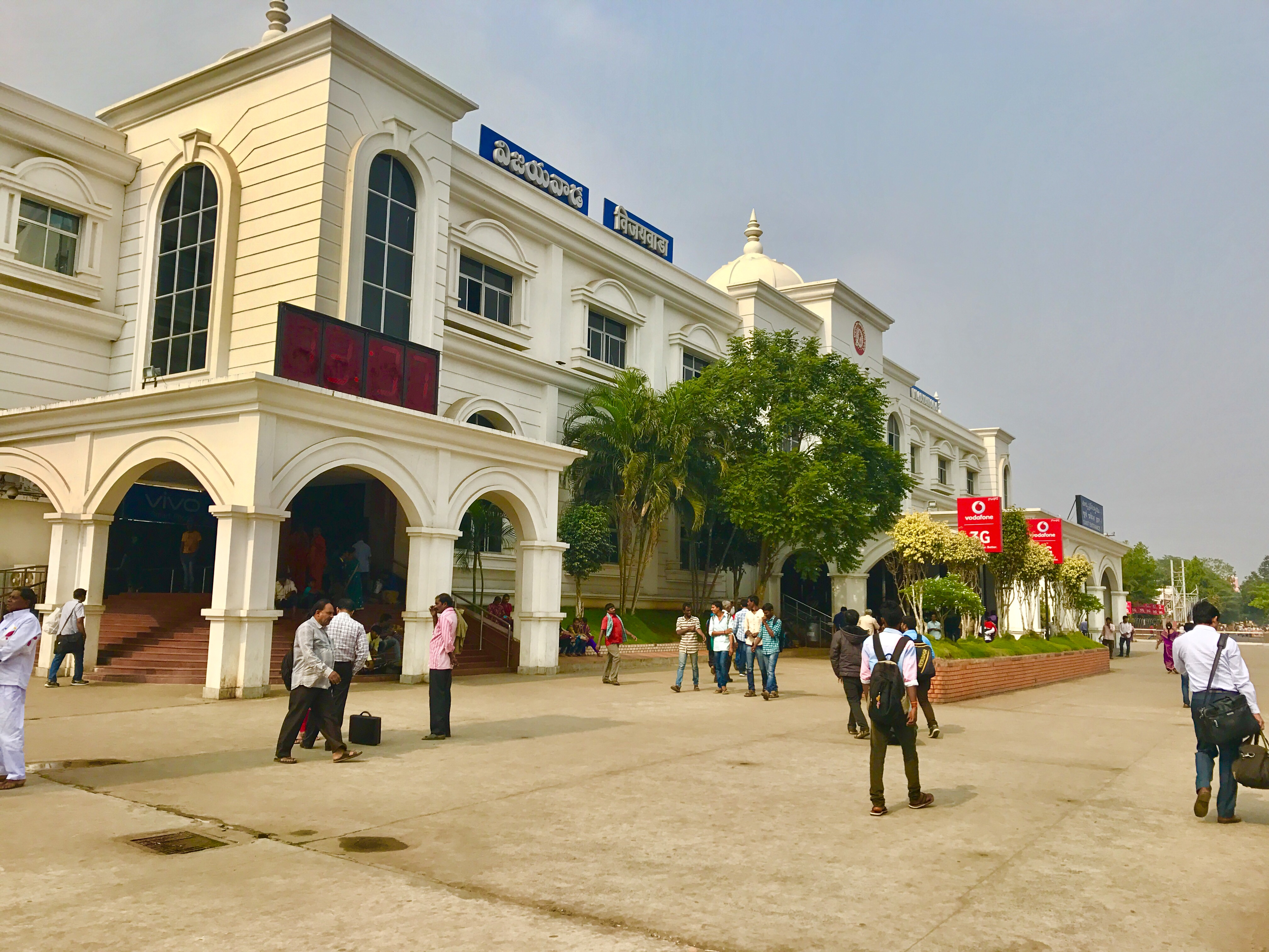 Main entrance gate of Vijayawada Junction railway station